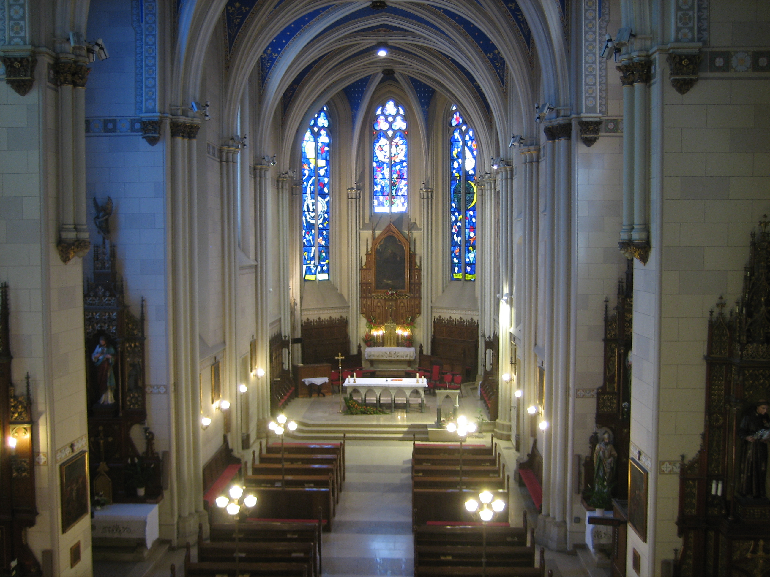 St. Francis Church of the franciscans in Zagreb, Croatia